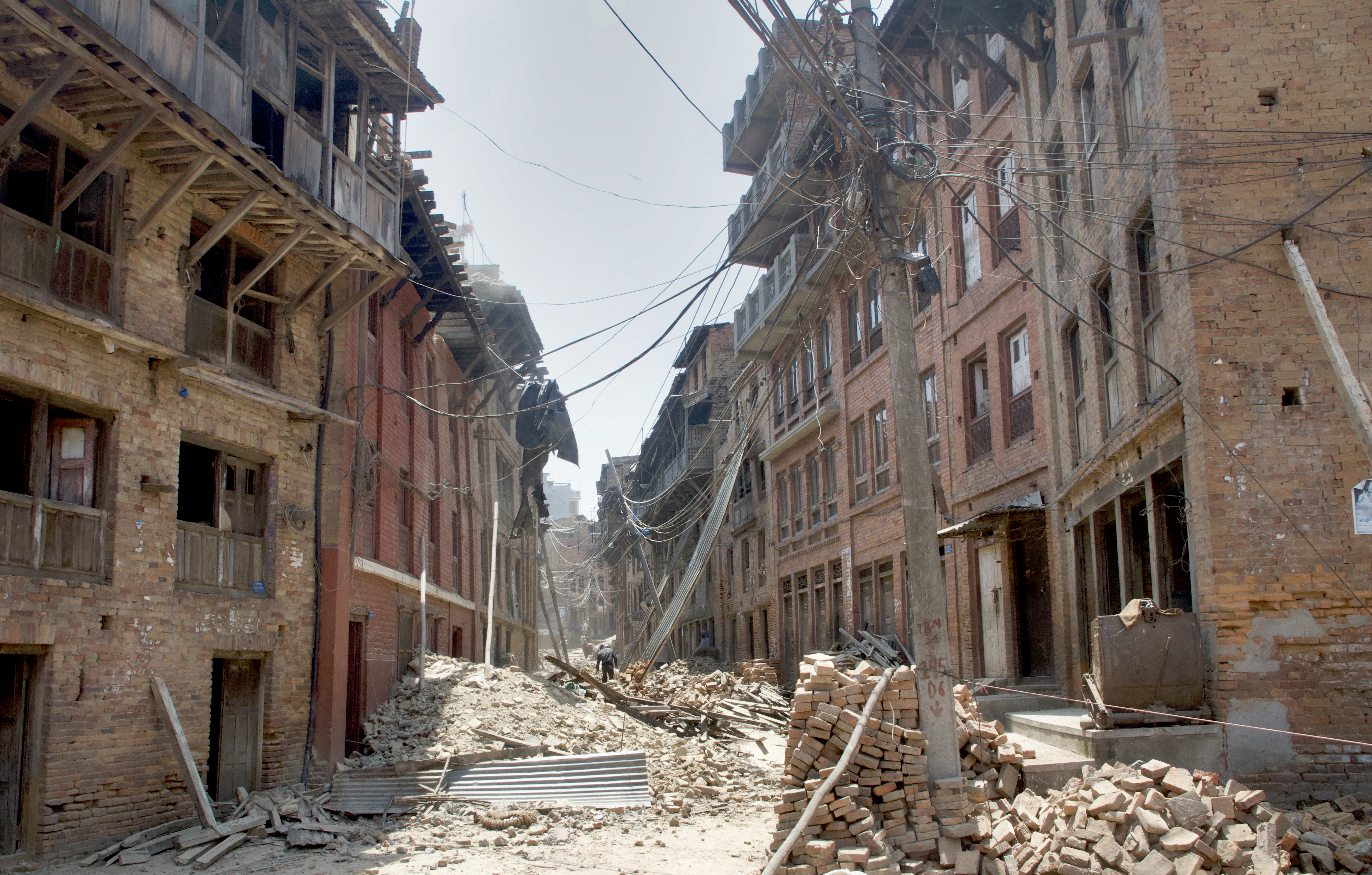 Ruins of Bhaktapur (Kathmandu Valley, Nepal) after 2015 earthquake